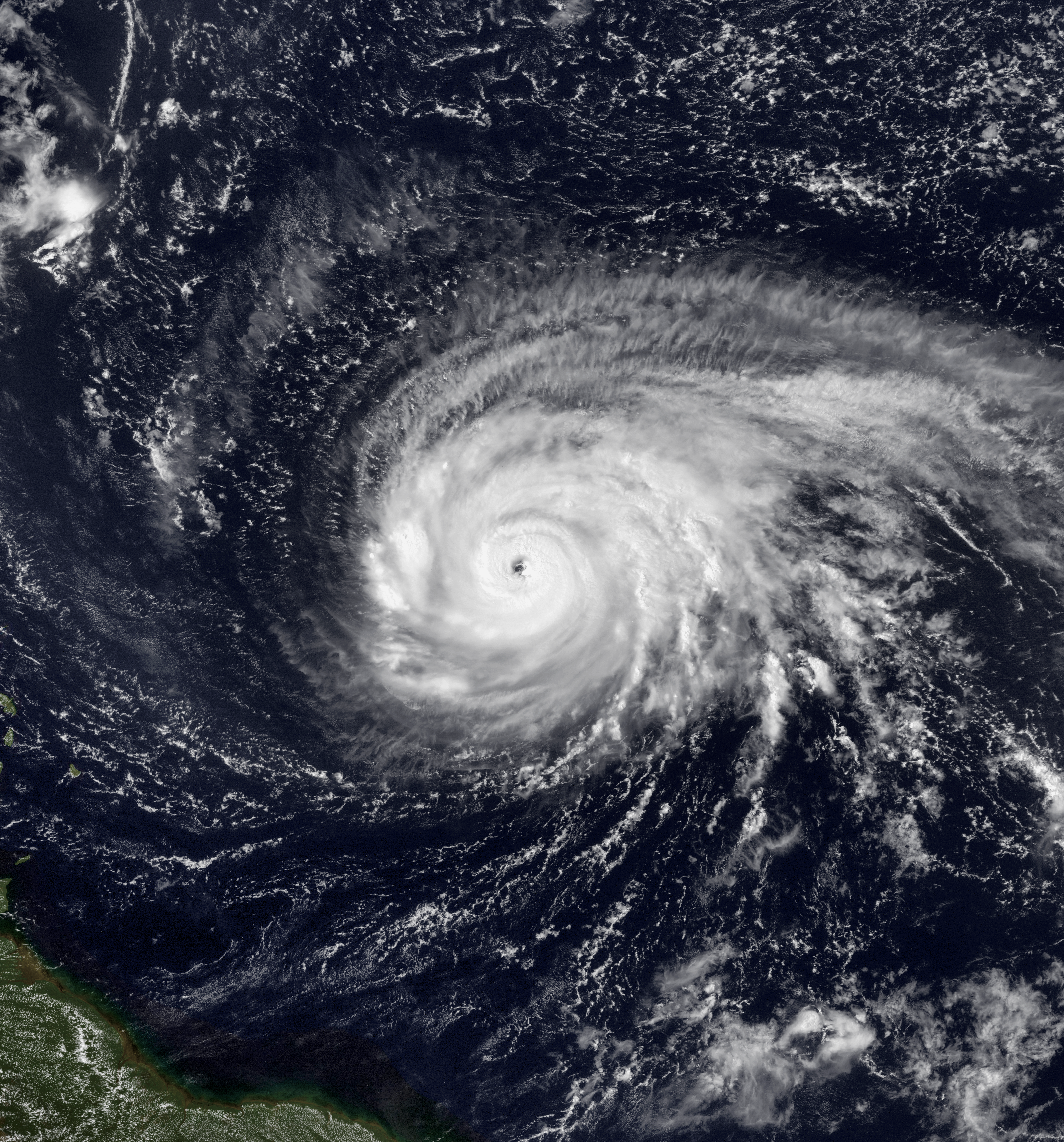 Hurricane Gert nearing peak intensity on September 15, 1999